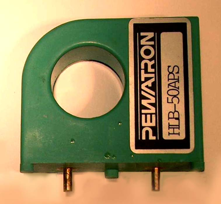 Current sensor 50 A DC Pewatron